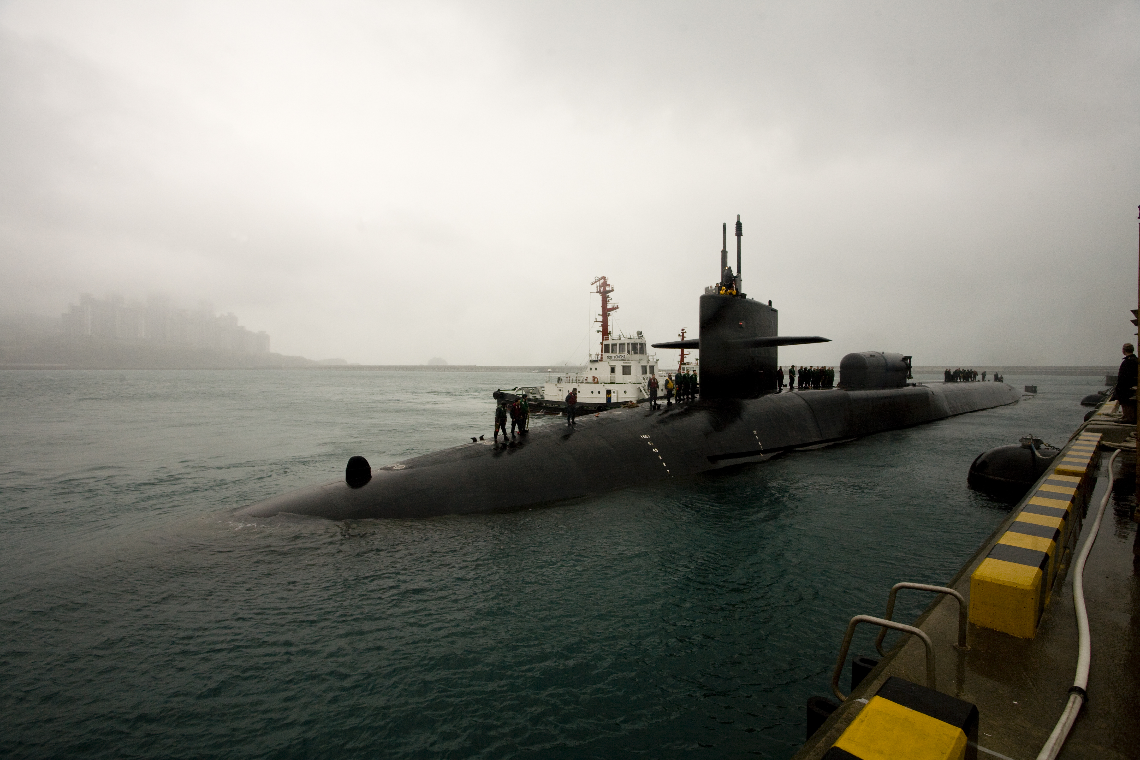 110430-N-4366B-113 BUSAN, Republic of Korea (April 30, 2011) The Ohio-class guided-missile submarine USS Michigan (SSGN 727) passes silhouettes of the rain obscured Oryuk Islets, in background, as she arrives in Busan for a routine port visit. Oryuk translates to "five of six" because the height of the tide determines how the rocks are separated at the waters surface. Michigan, homeported in Bangor, Washington, is one of two guided-missile submarines (SSGN) currently in the U.S. 7th Fleet area of responsibility. (U.S. Navy photo by LT Jared Apollo Burgamy/Released)